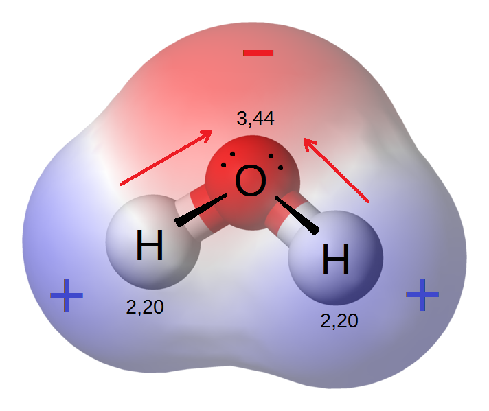 Permanent dipole of water molecule.